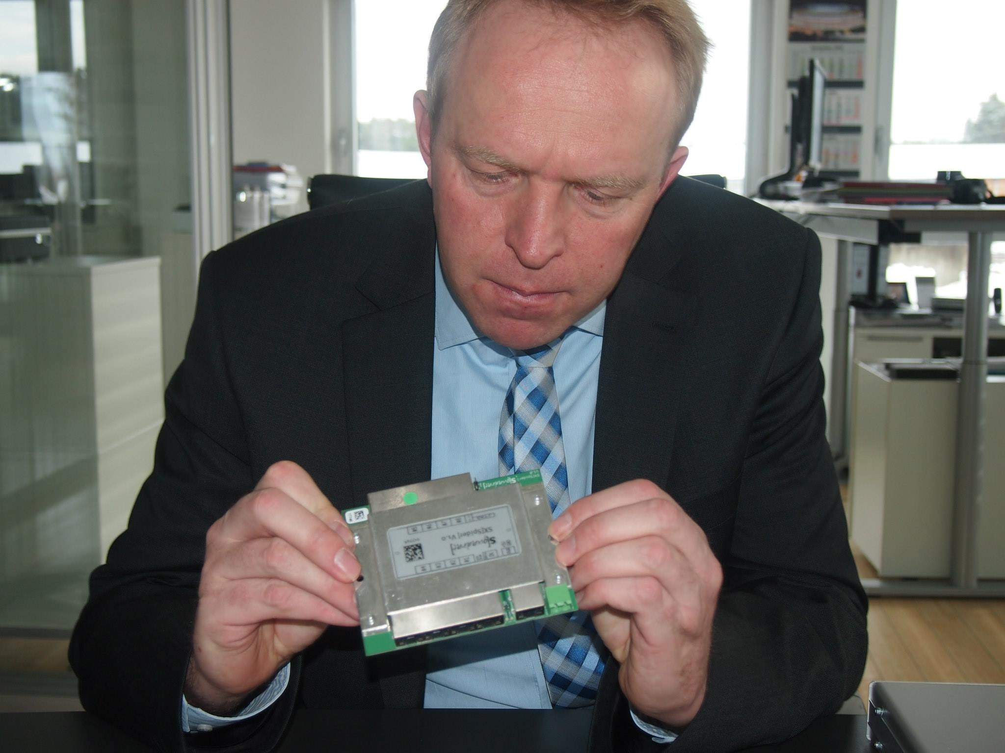 Gelernter Elektromeister und Mitglied des Bayerischen Landtags: Volker Bauer, MdL.